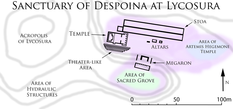 J. Matthew Harrington, self made plan of the sanctuary of Lycosoura.